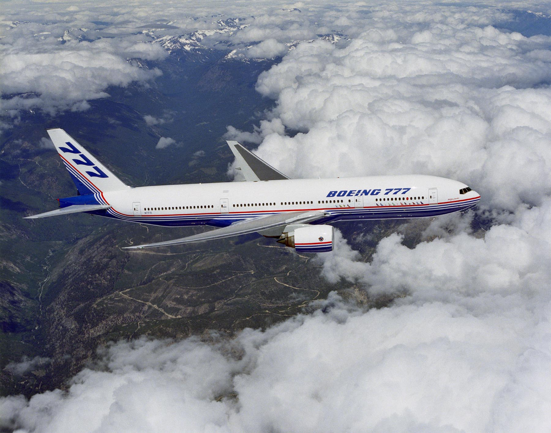 A Boeing 777-200 (N7771) flying above the clouds, painted in the former Boeing livery.